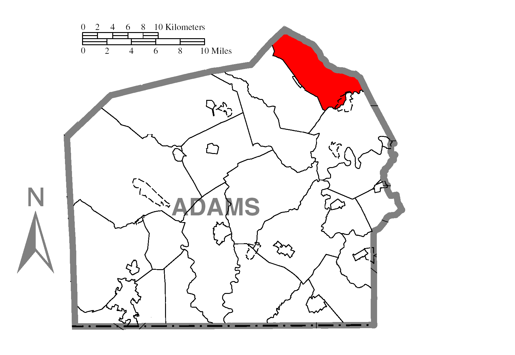 A map of Adams County showing Latimore Township, Pennsylvania (alternate) highlighted on the map.